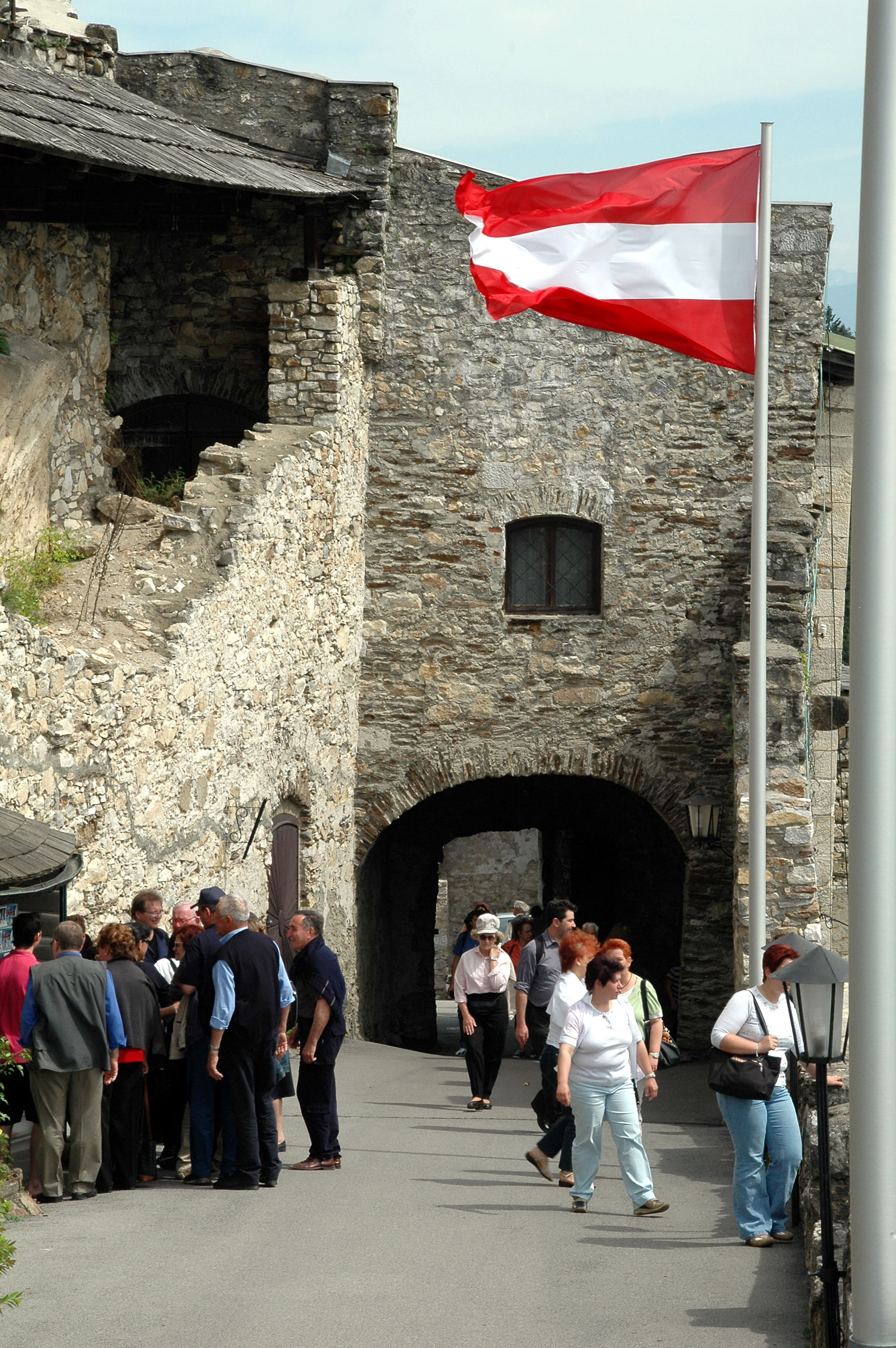 Gate tower at the castle ruin on Schlossbergweg #30 in Landskron, municipality Villach, Carinthia, Austria, EU